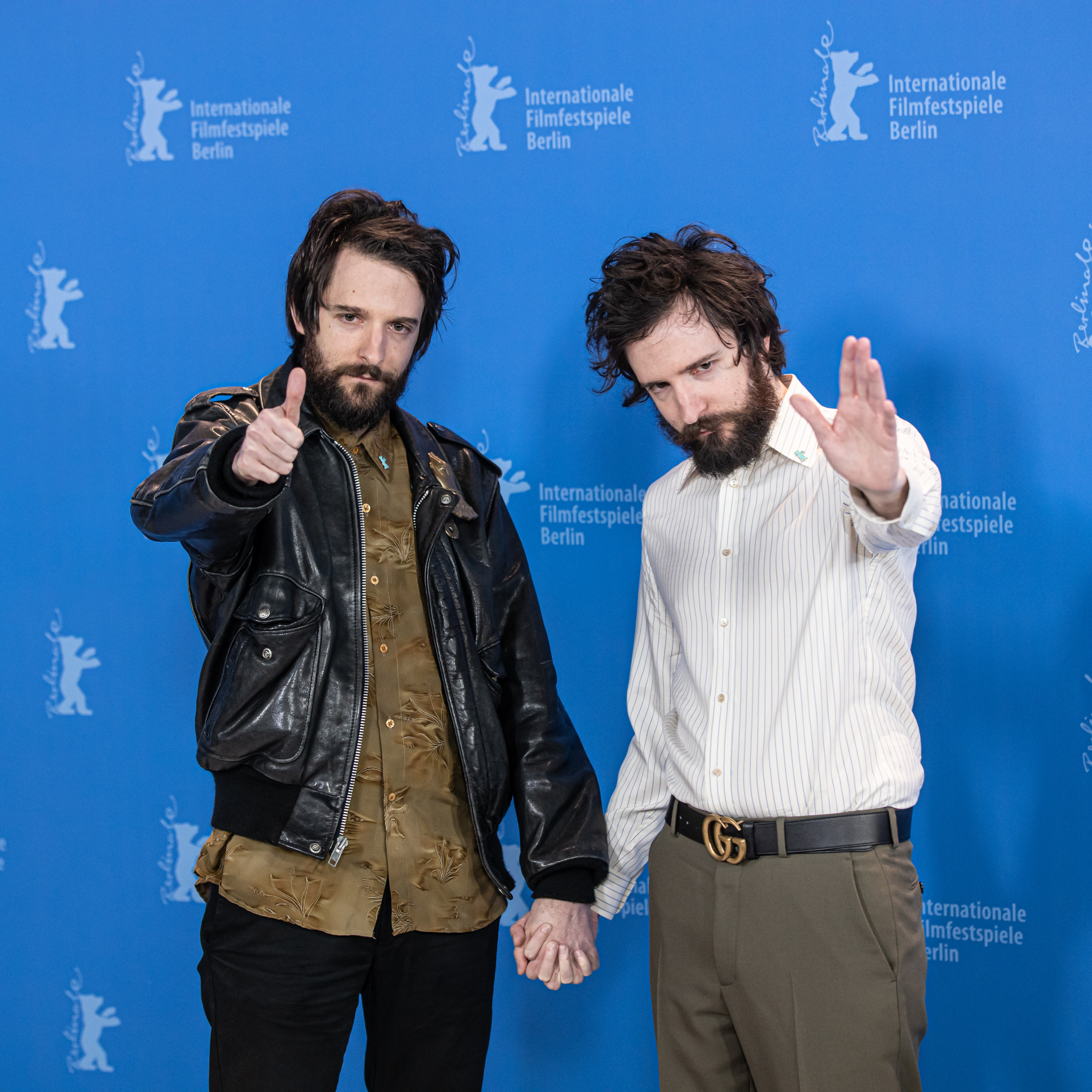 Film directors Damiano D'Innozenzo and Fabio D'Innozenzo at the Berlinale 2020